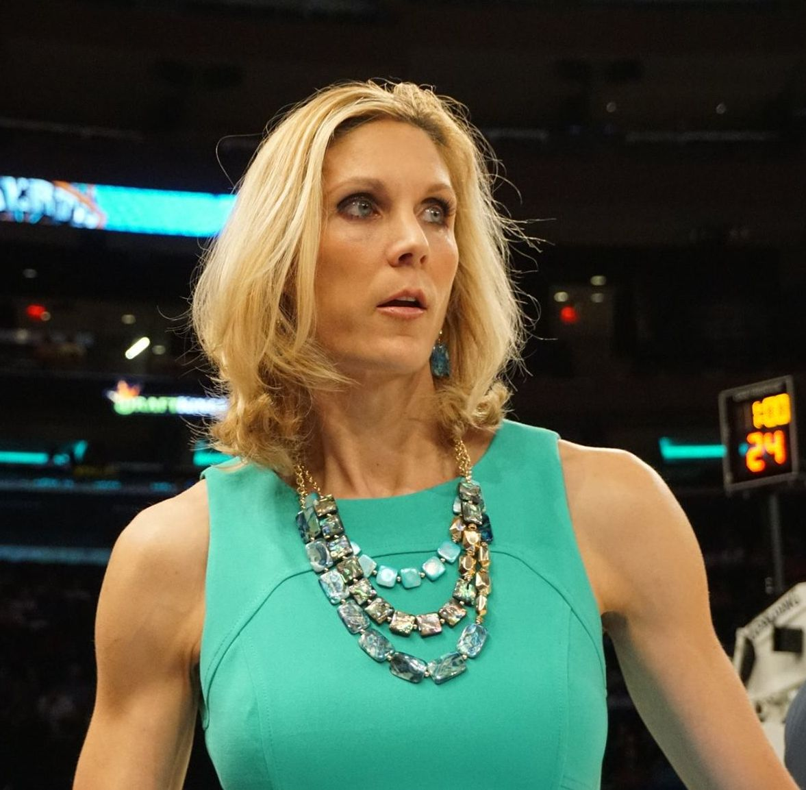 Jenny Boucek at 2 August 2015 game